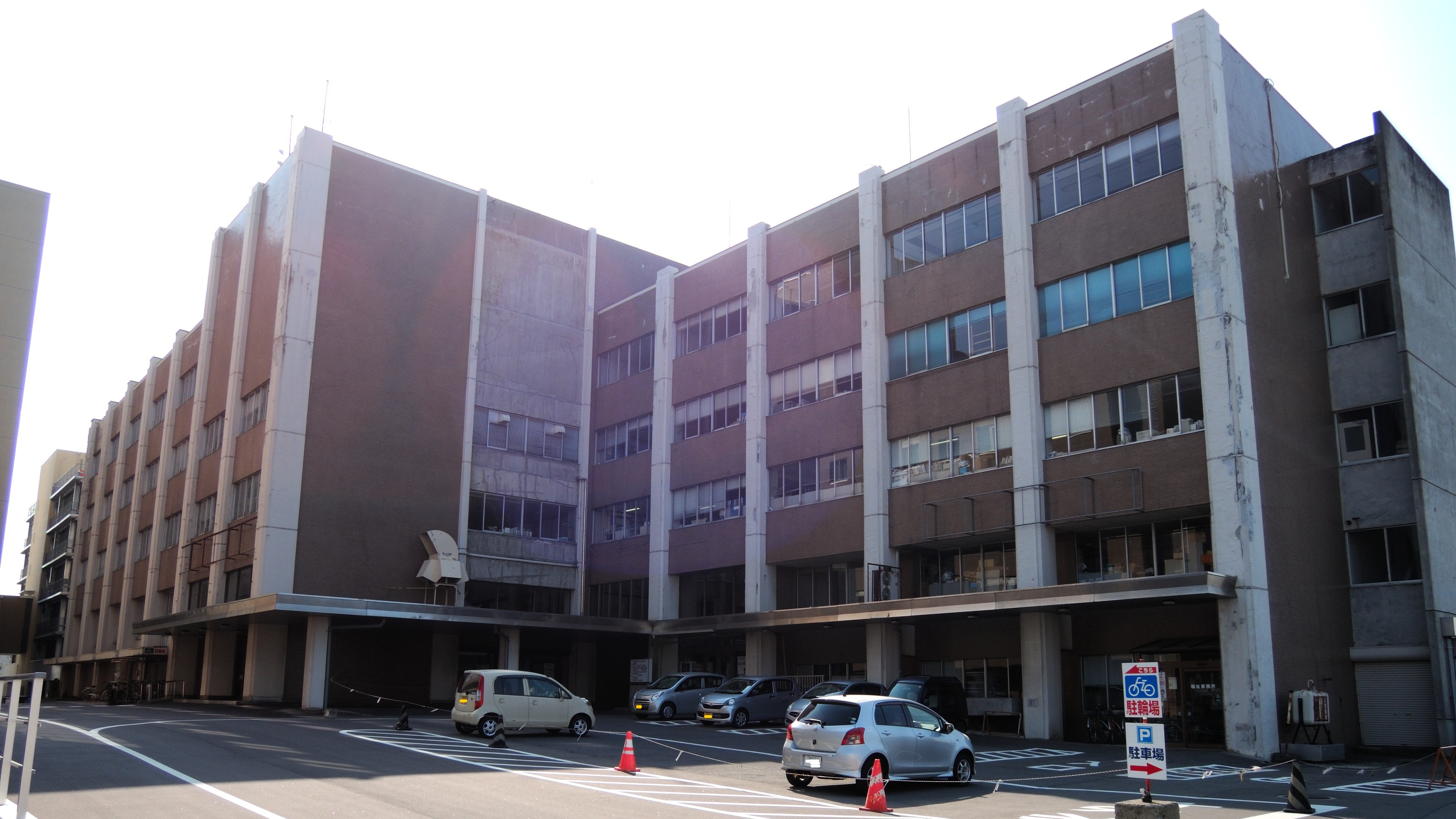 Goshogawara city hall,Aomori prefecture,Japan